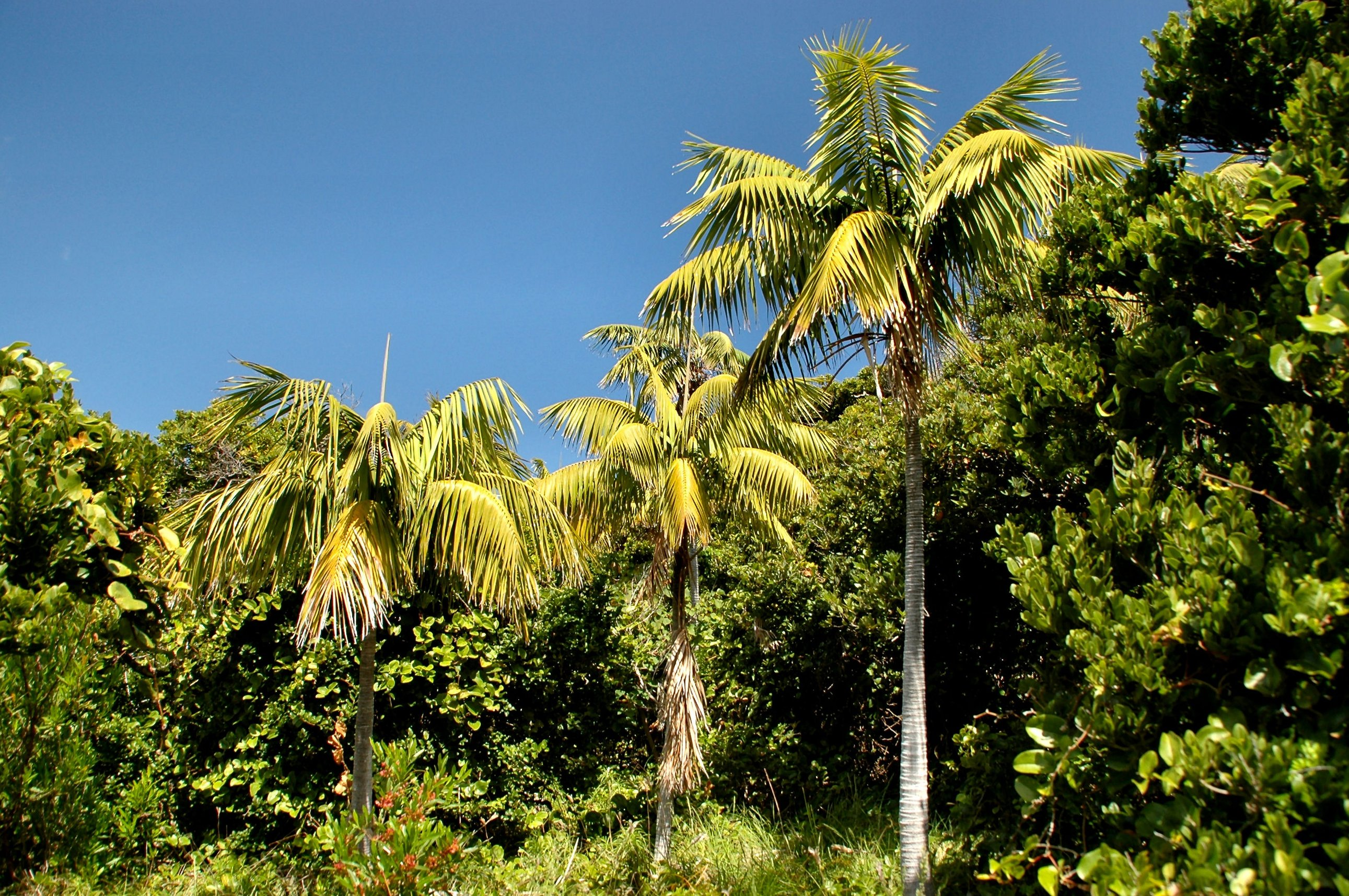 Howea forsteriana in its natural range at North Bay, Lord Howe Island, Australia. Common Names : Kentia Palm, Sentry Palm, Thatch Palm